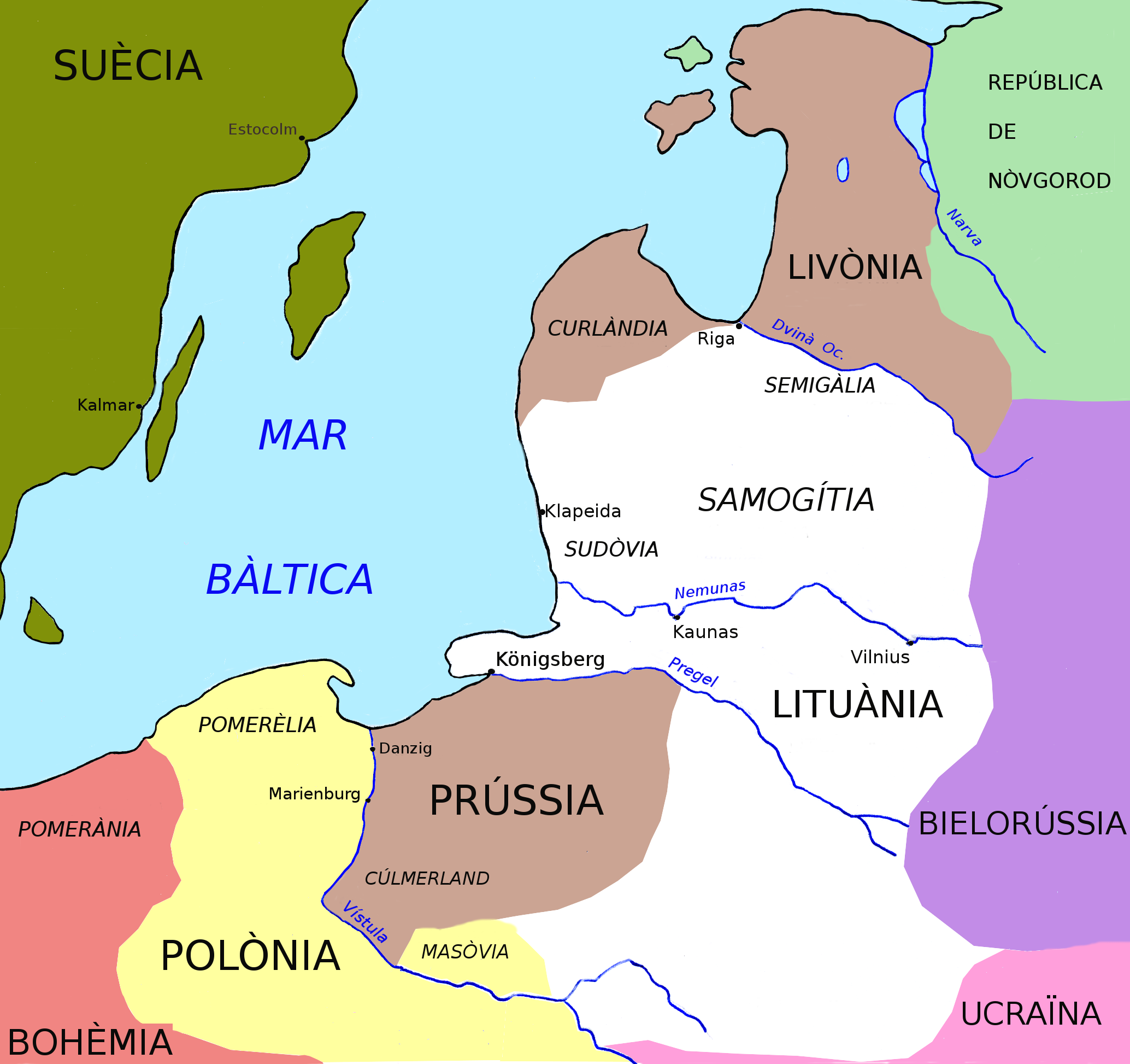 Map of the Lithuanian Crusade 1308-1455.